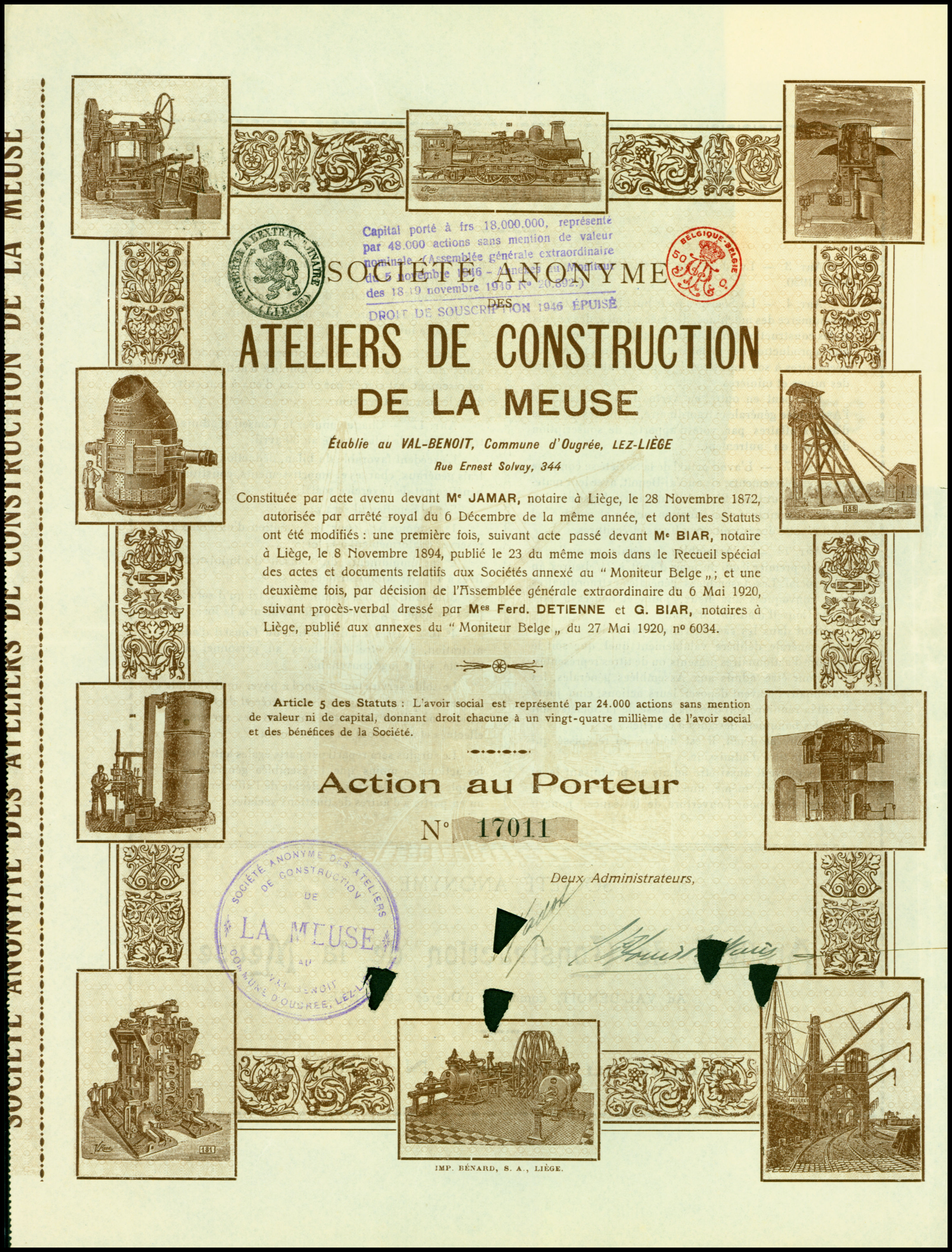 Share of the SA des Ateliers de Construction de la Meuse, issued 27. May 1920